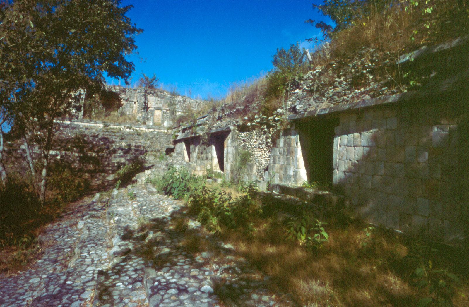 Xkipché, Yuzcatán, Mexico: Palace, east wing, south facade.